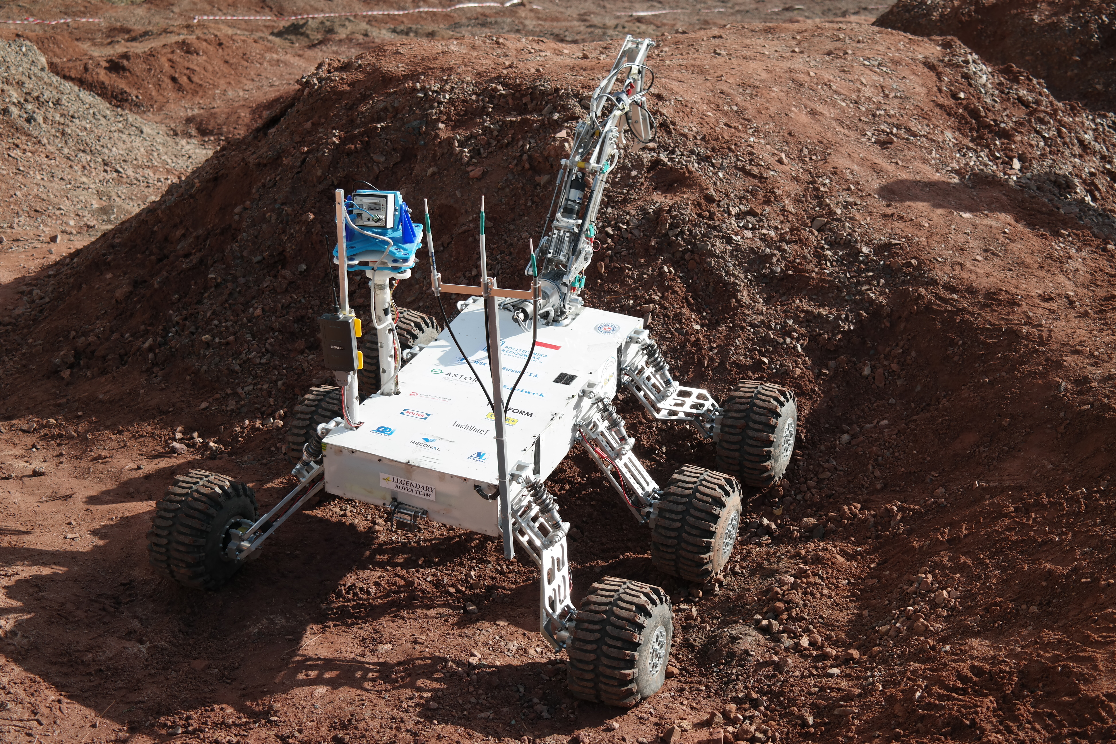 European Rover Challenge 2015, 5-6 September, Podzamcze near Chęciny near Kielce, Poland. Showcases on the track on the 6th of September. Legendary Rover, winner of the University Rover Challenge 2015 (category), presented to the public.